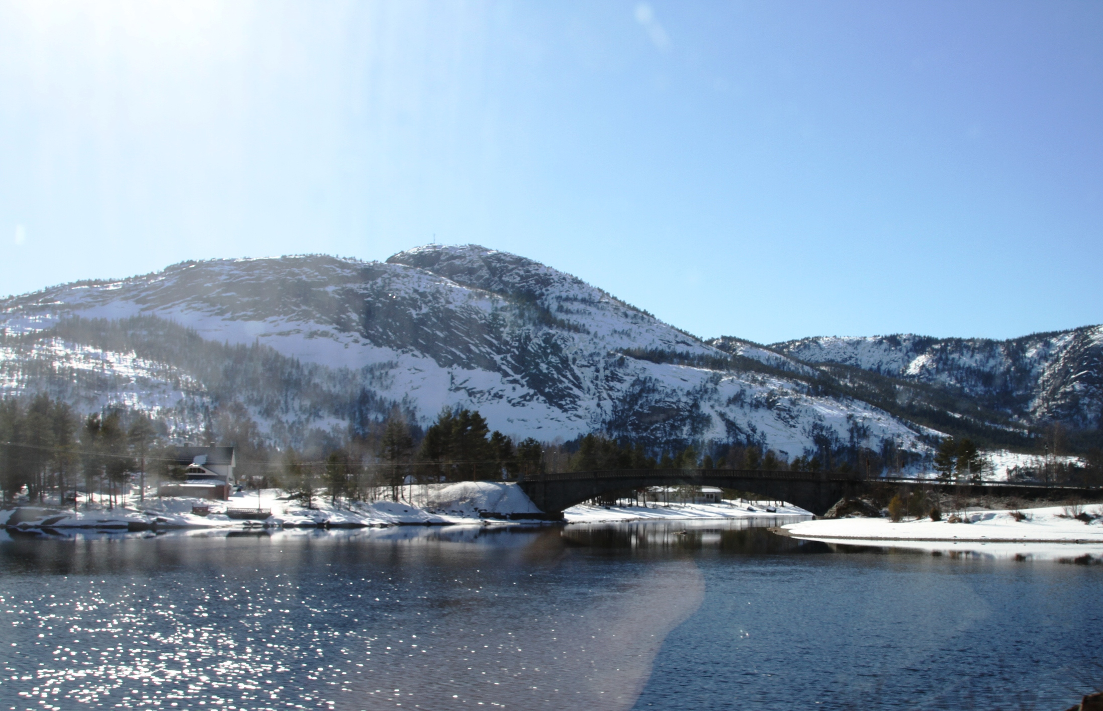 Image from the settled area of Treungen, around Treungen township - the center of Nissedal municipality, in Telemark county, Norway